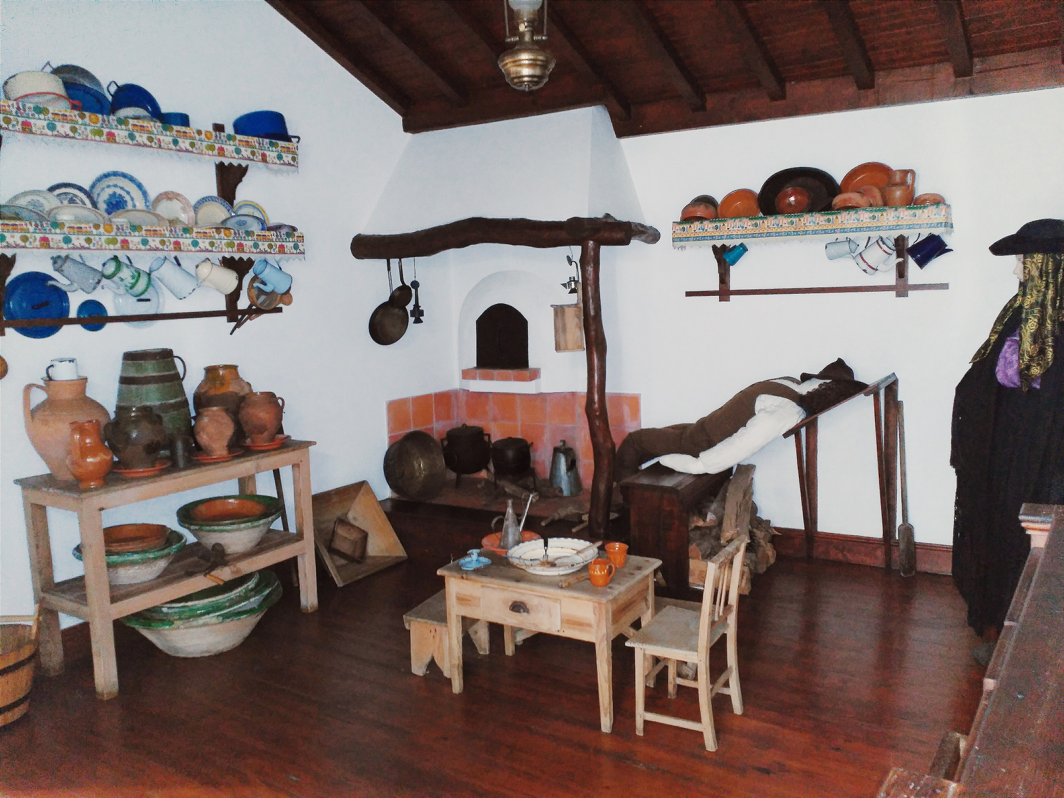 etnographic museum